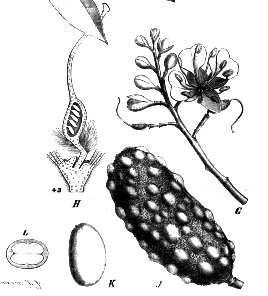 Illustration from book